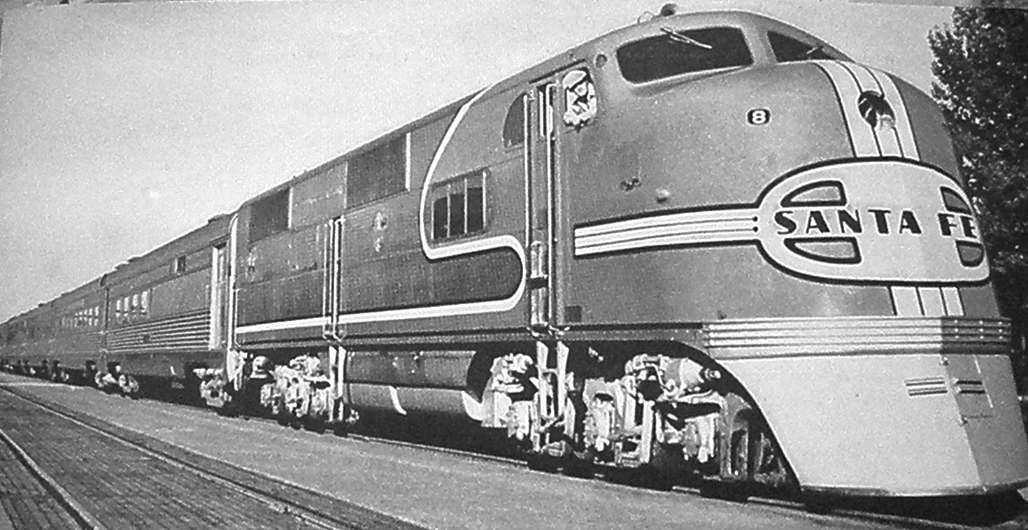 Photo from the cover of a Santa Fe brochure detailing the new train, Golden Gate.